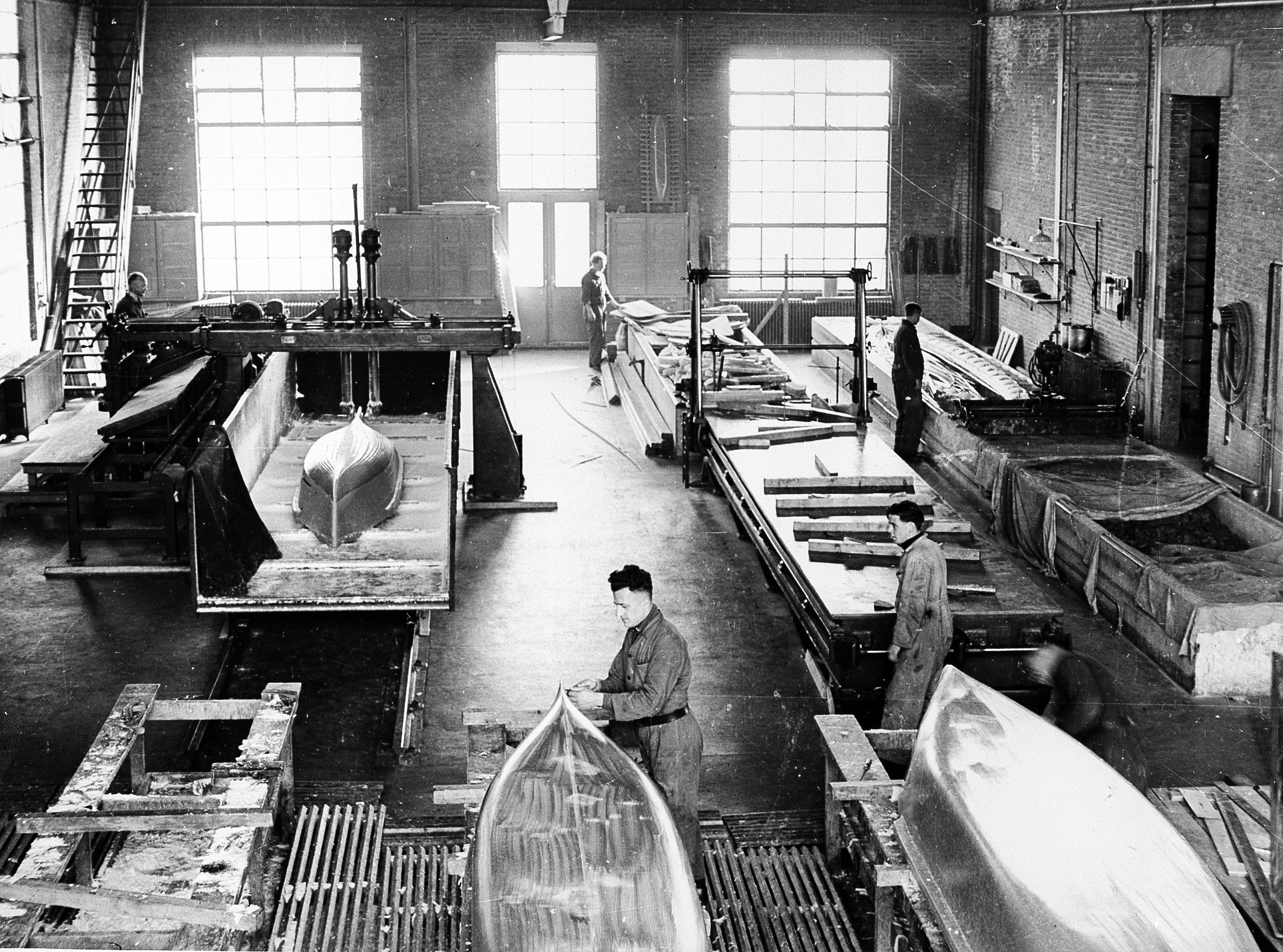 Modellenwerkplaats MARIN